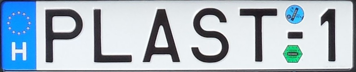 Hungarian Vanity plate